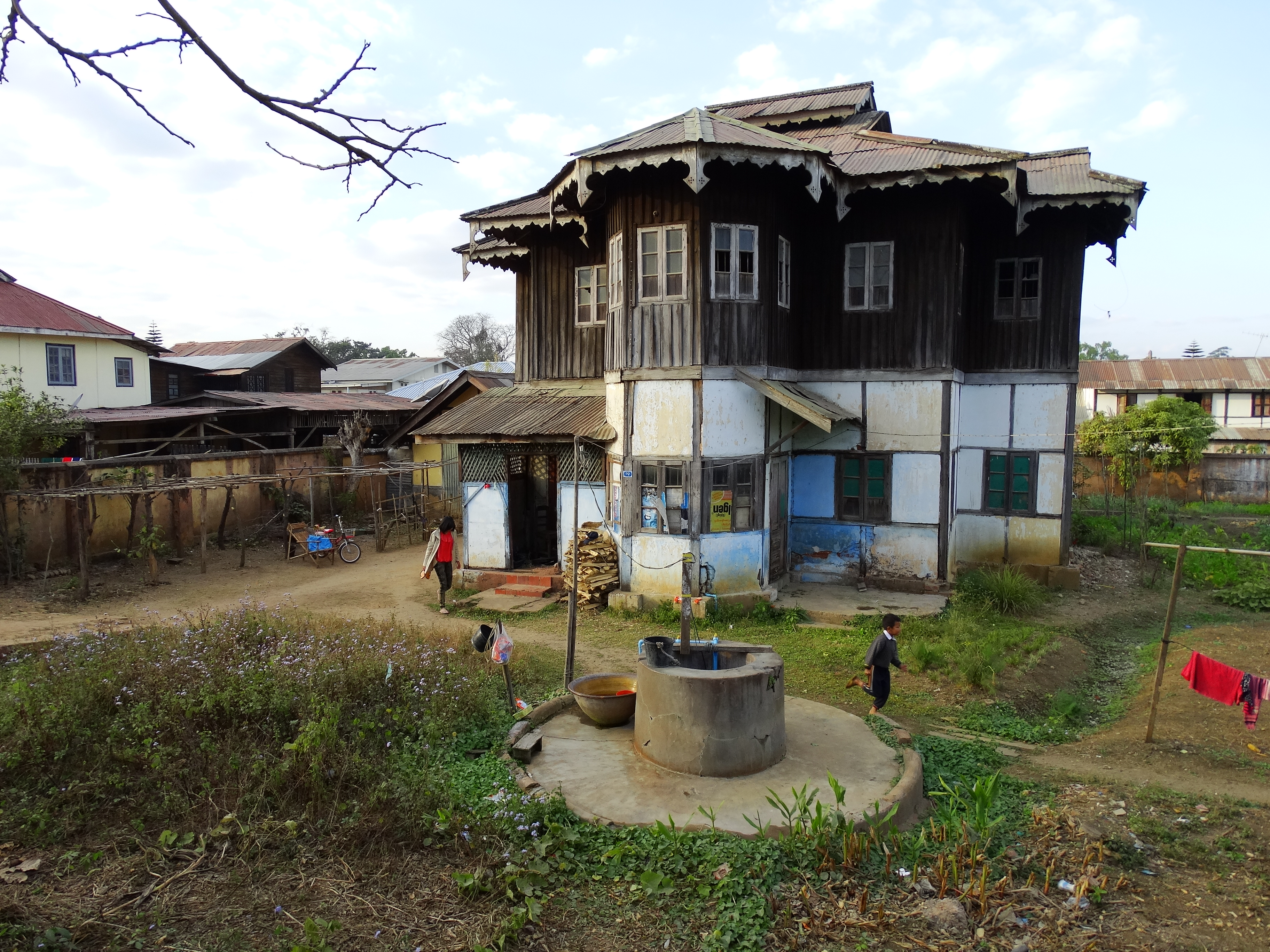 Colonial-Era House and Garden - Pyin Oo Lwin - Myanmar (Burma).